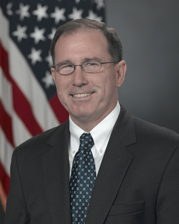 Michael G. Vickers, former undersecretary of defense for intelligence and Assistant Secretary of Defense (Special Operations/Low-Intensity Conflict & Interdependent Capabilities — ASD SO/LIC & IC), DoD, USA